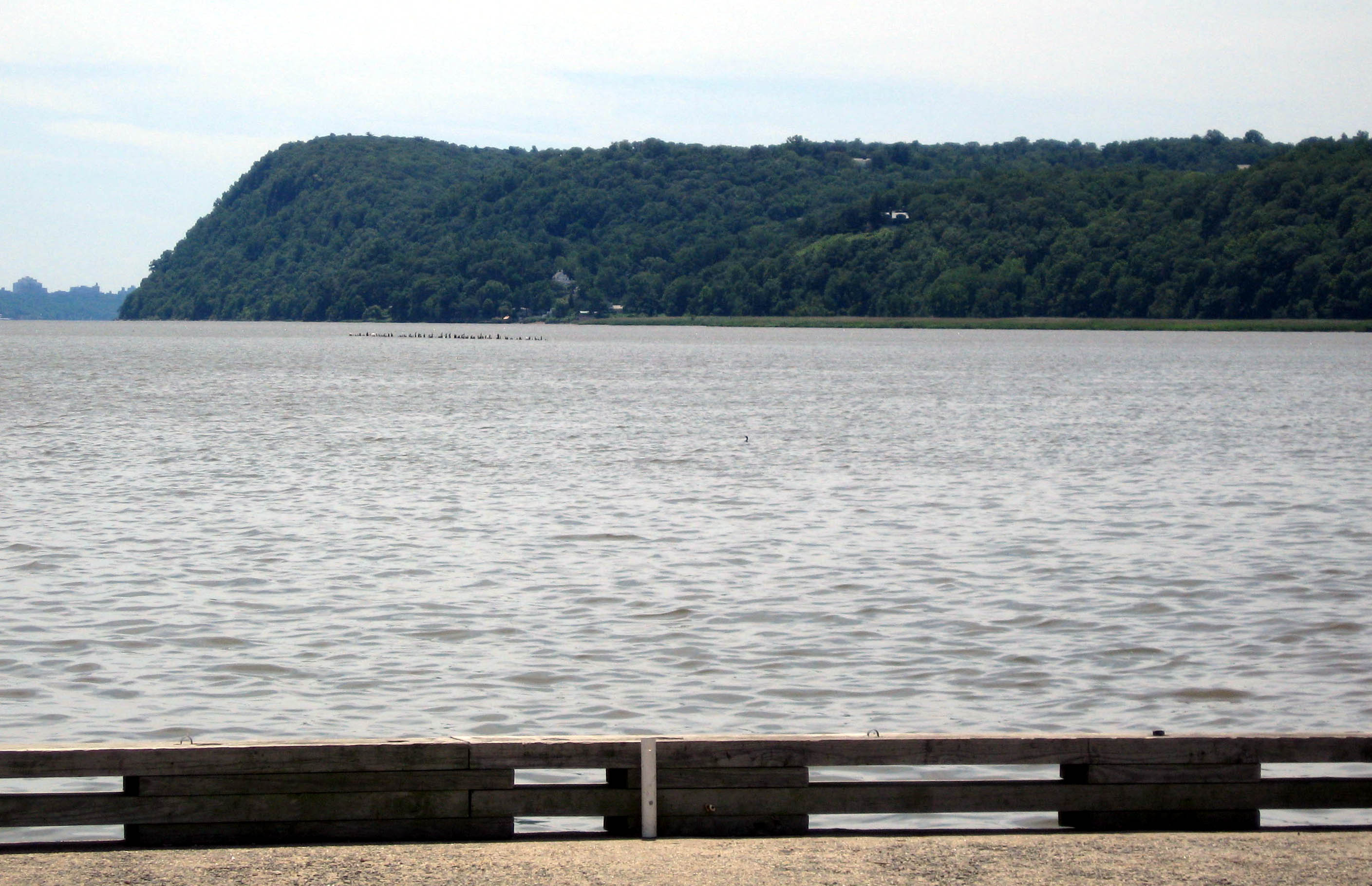 Tallman Mountain State Park as seen looking southwest from Piermont, New York on a mostly clear early afternoon.